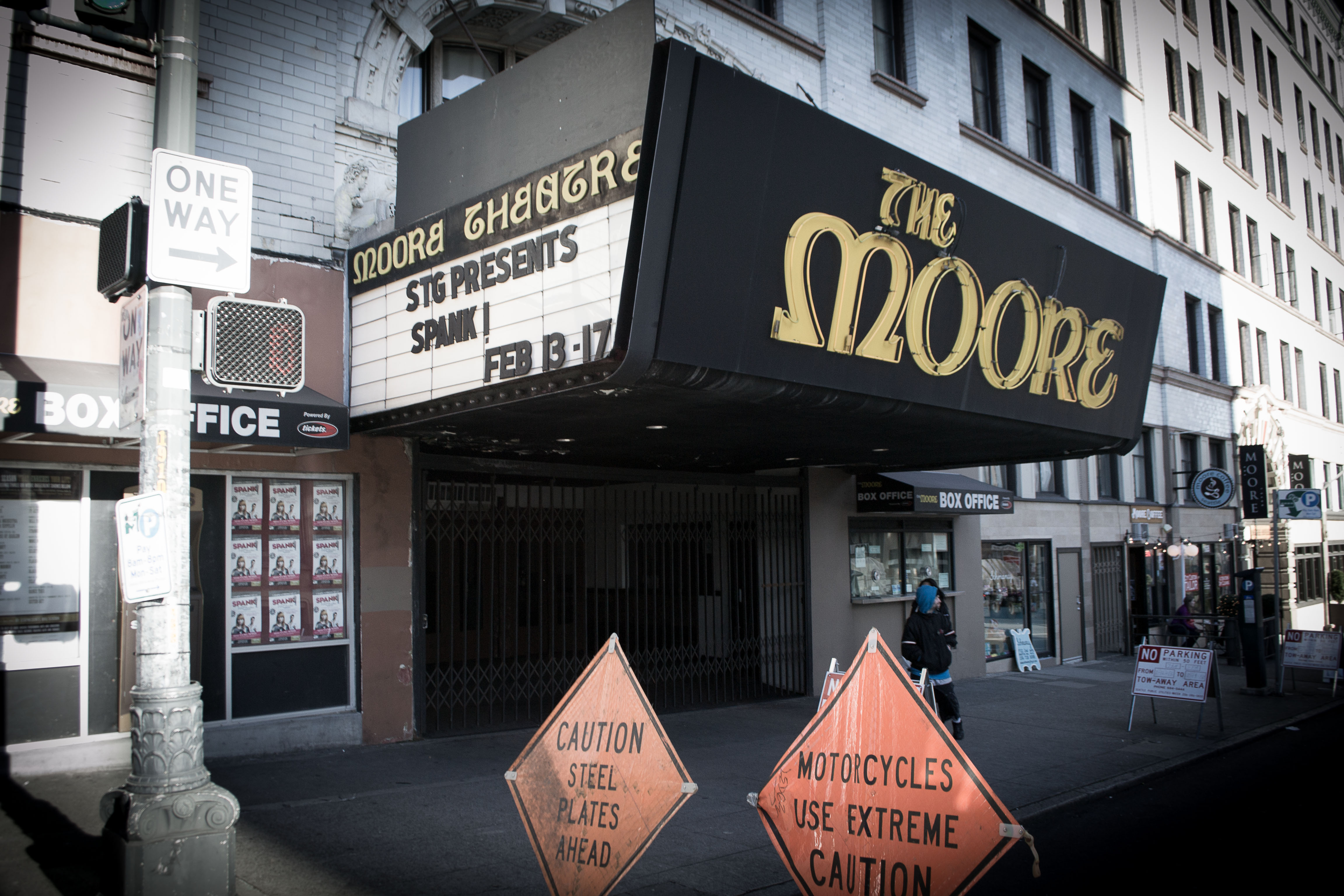 Seattle's Moore Theatre